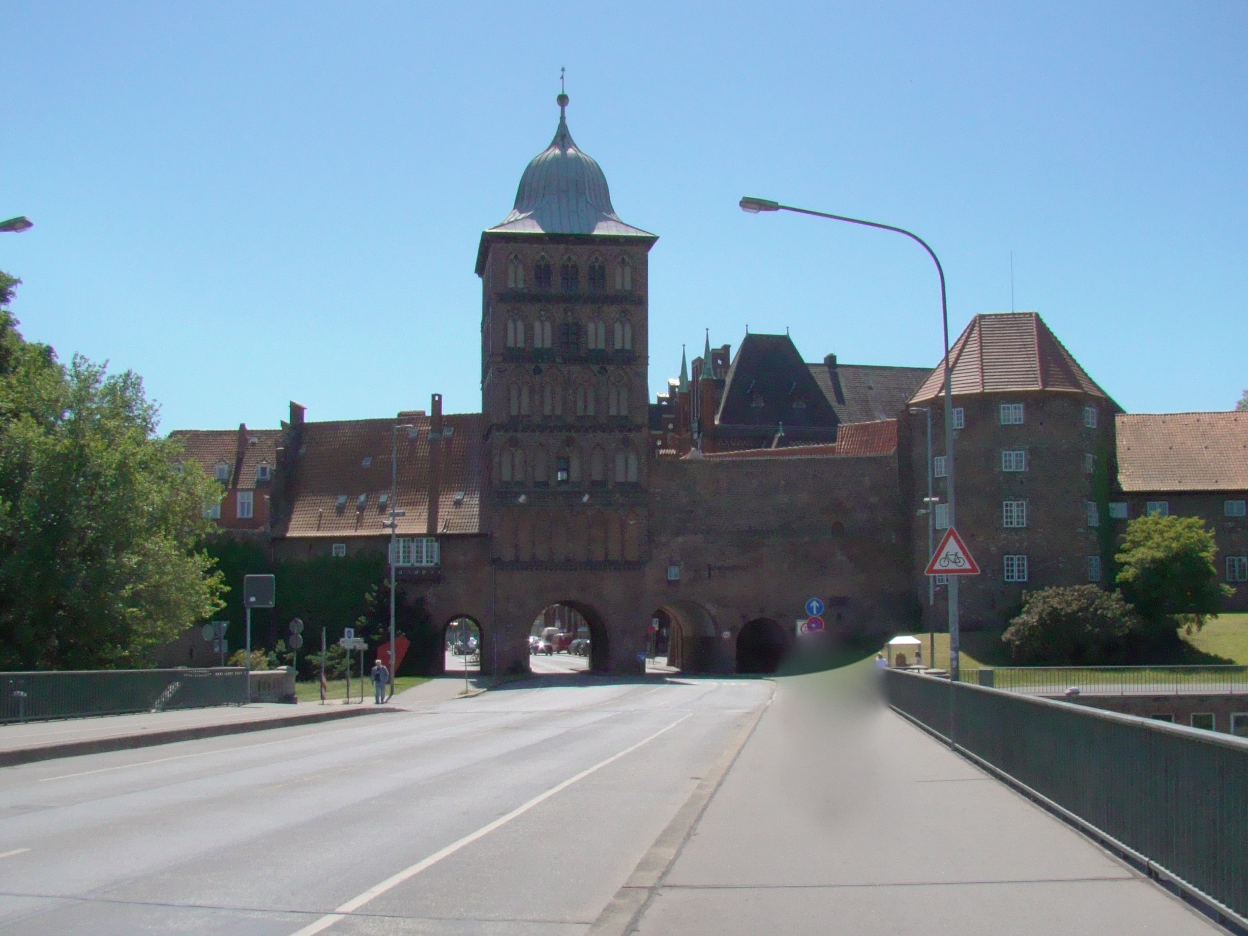 Burgtor Gate in Lubeck, Germany. Originally built in the 1400s